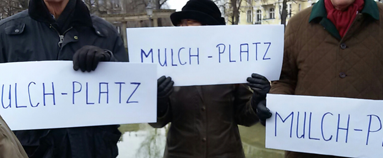 Viktoria Luise Square in Berlin. The Friends of the Viktoria-Luise-Platz ironically suggest to rename it "Mulch Square", since the district administration had the unplanted betteraves covered by mulch for the fountain ceremony.